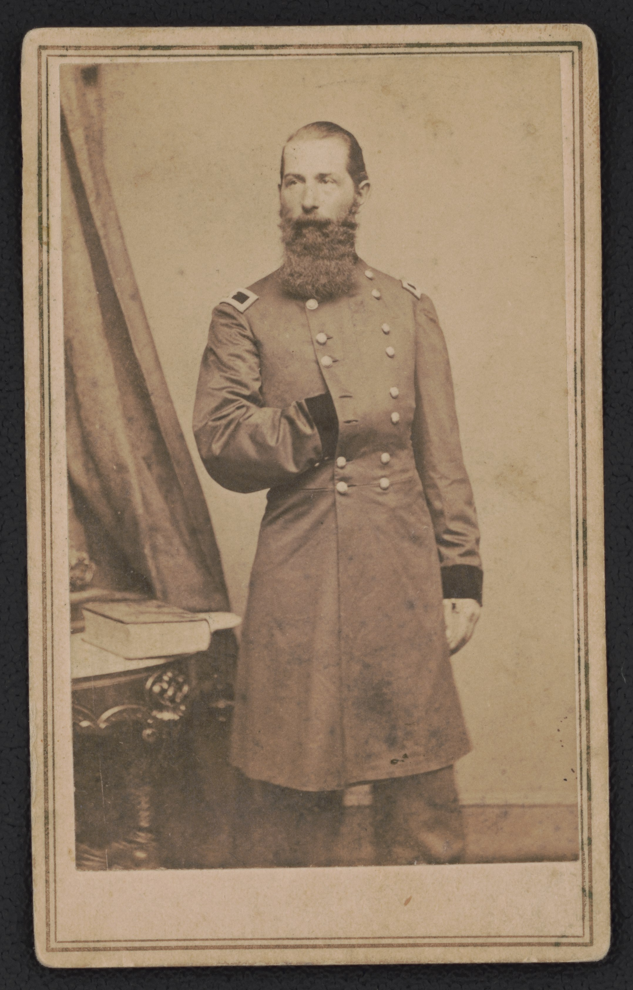 Title: Major General David Allen Russell of 7th Massachusetts Infantry Regiment, in uniform] / Brady & Co.'s National Photographic Portrait Galleries, No. 352 Pennsylvania Avenue, Washington, D.C. and Broadway & Tenth St., N.Y Abstract/medium: 1 photograph : albumen print on card mount ; mount 11 x 7 cm (carte de visite format)